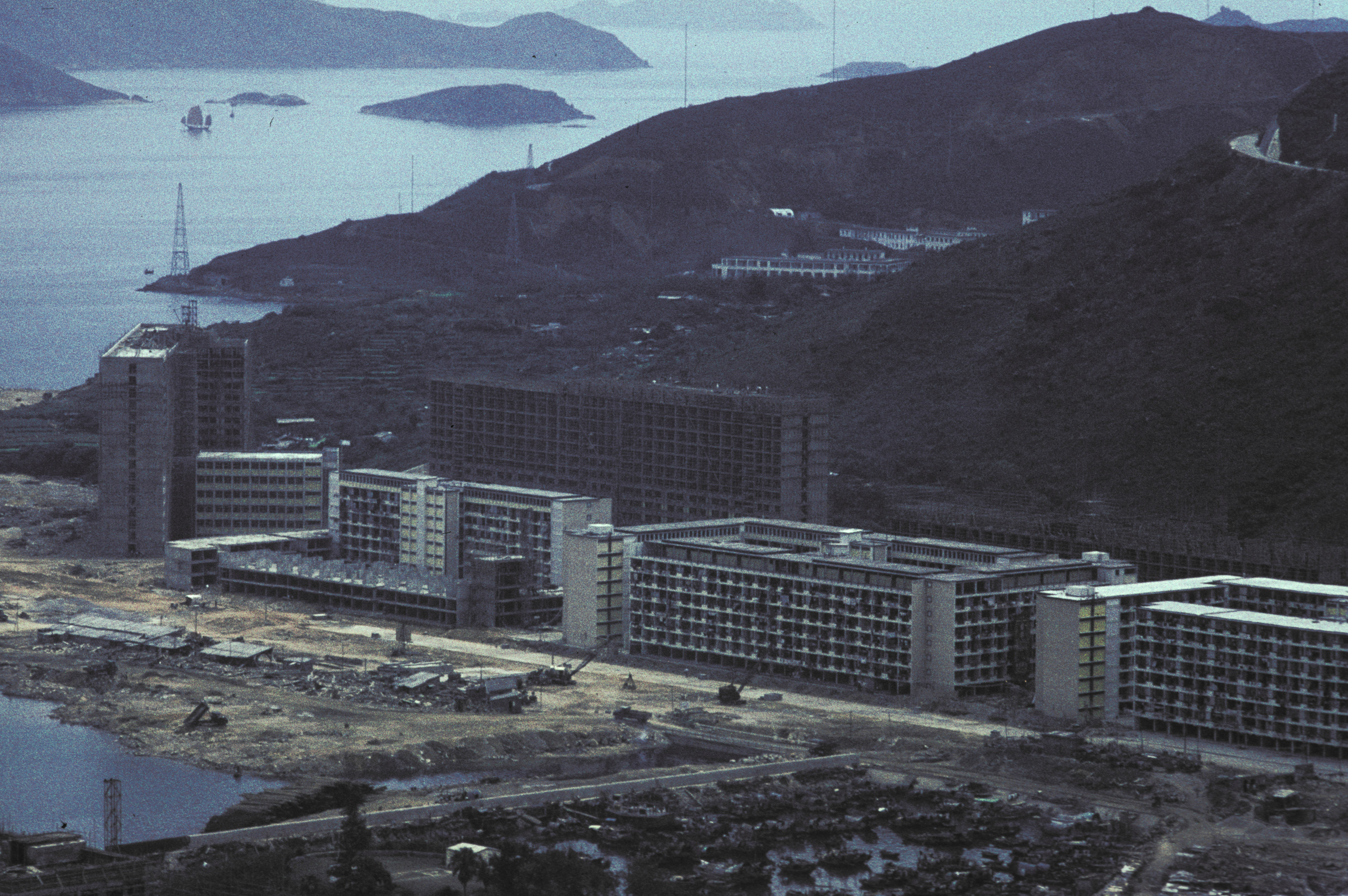 A view of the 1960s-section of the Chai Wan Estate under construction, with RAF Little Sai Wan in the background. These buildings have since been demolished. Thanks to users at who aided in identifying this location here. 中文（香港）: 柴灣邨